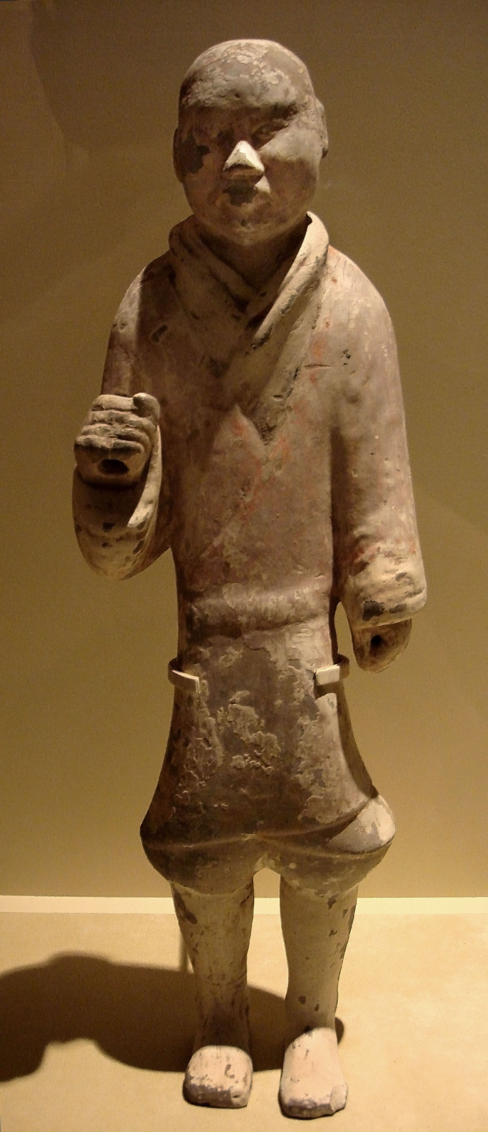 Painted figure of an infantryman Western Han Dynasty (206 B.C. - A.D. 8) Excavated at Xianyang, Shaanxi Province, 1965 From a general's tomb, this figure representing a typical Western Han Period soldier wears a short belted robe, a pair of hemp shoes, and trousers. His hair is bound up in cloth; judging from his stance his right hand likely held a weapon, and his left a shield.